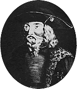 Arnold of Egmond, duke of Guelders